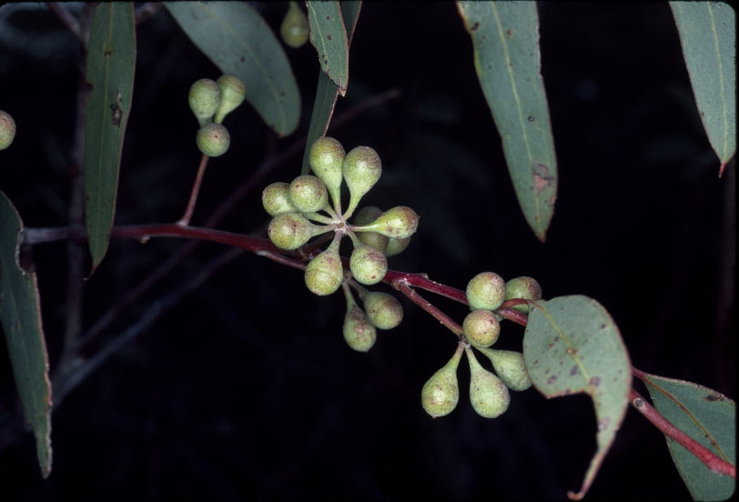 Flower buds of Eucalyptus exilis in the Boyan Rock Reserve